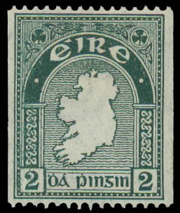 A 2010 discovered and authenticated copy of Ireland #68b (SG #74b) coil stamp regarded as Ireland's rarest by the stamp catalogues